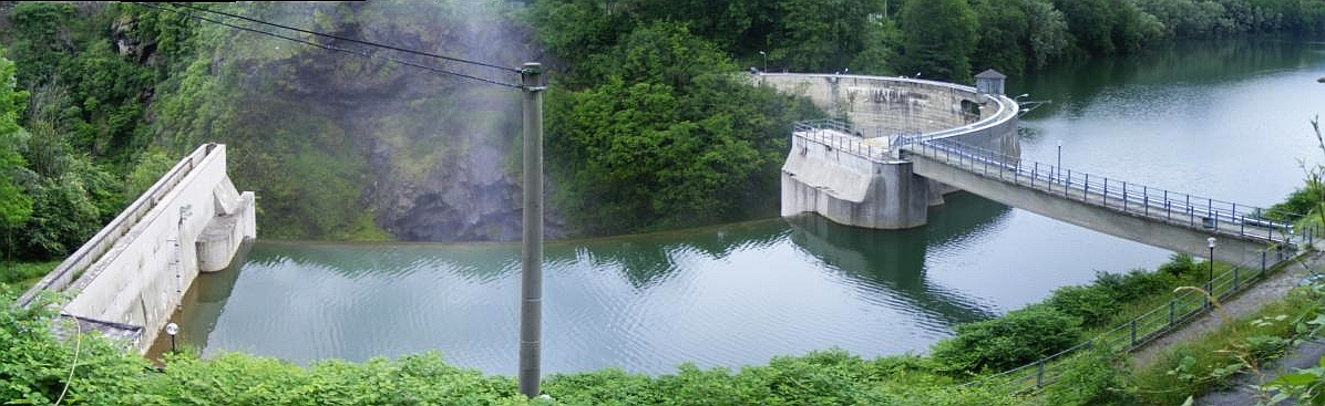 Gurzia dam (TO, Italy)